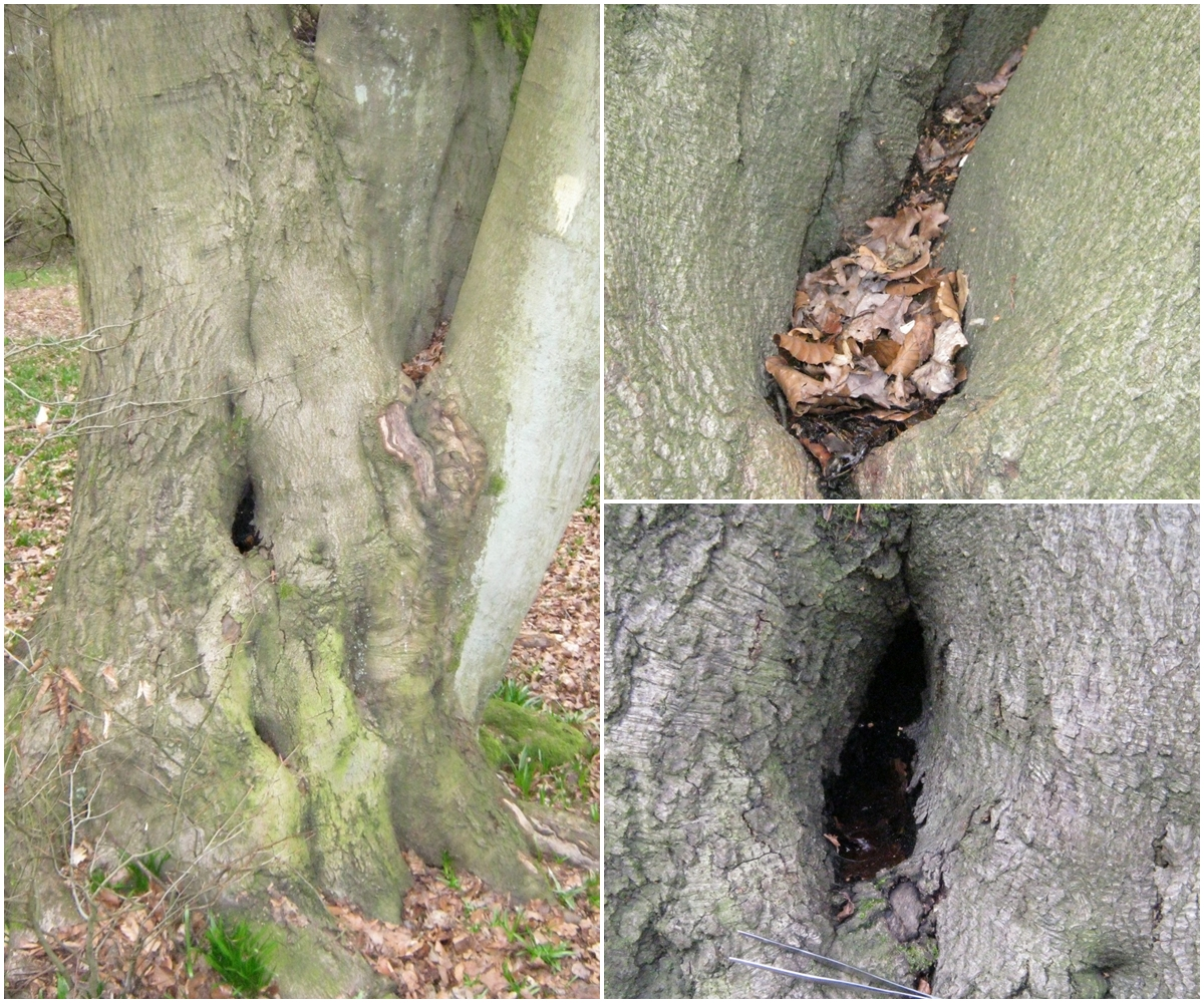 Labulla thoracica webs in both these tree crevices. Bricket Wood Common, Hertfordshire, March 2011.